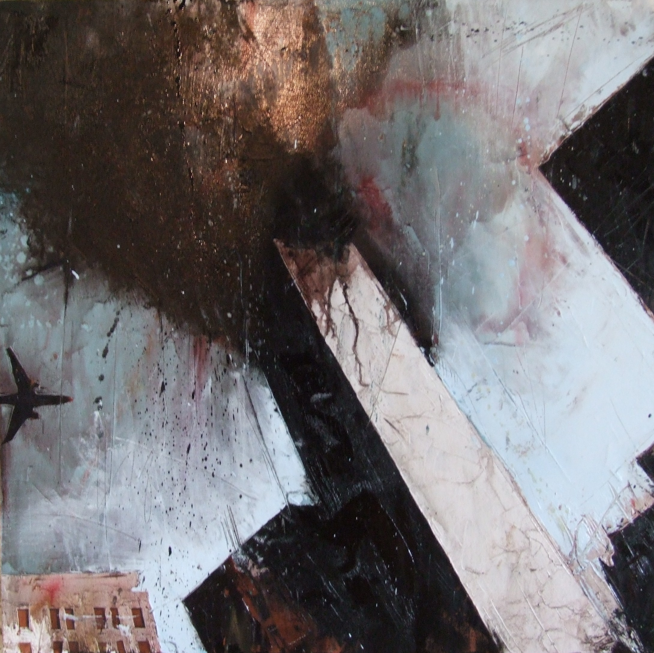 Vanity Fair by Guy Denning. Oil on canvas, 50 x 50 cm, 2007. Exhibited at the '5/11' show Red Propeller, Kingsbridge.